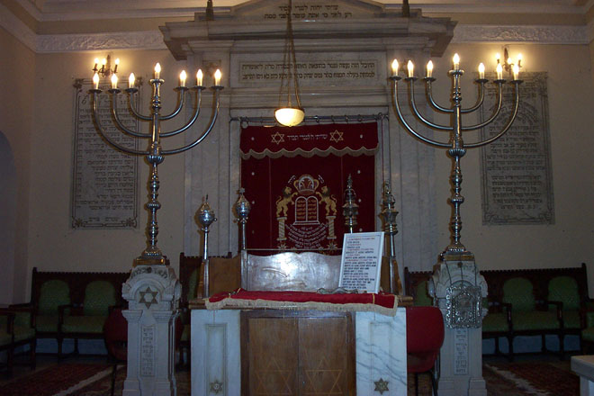 Saloniki_Synagogue_Monastir. Credit:Courtesy of Arie Darzi to memorialize the Jewish community in Greece.